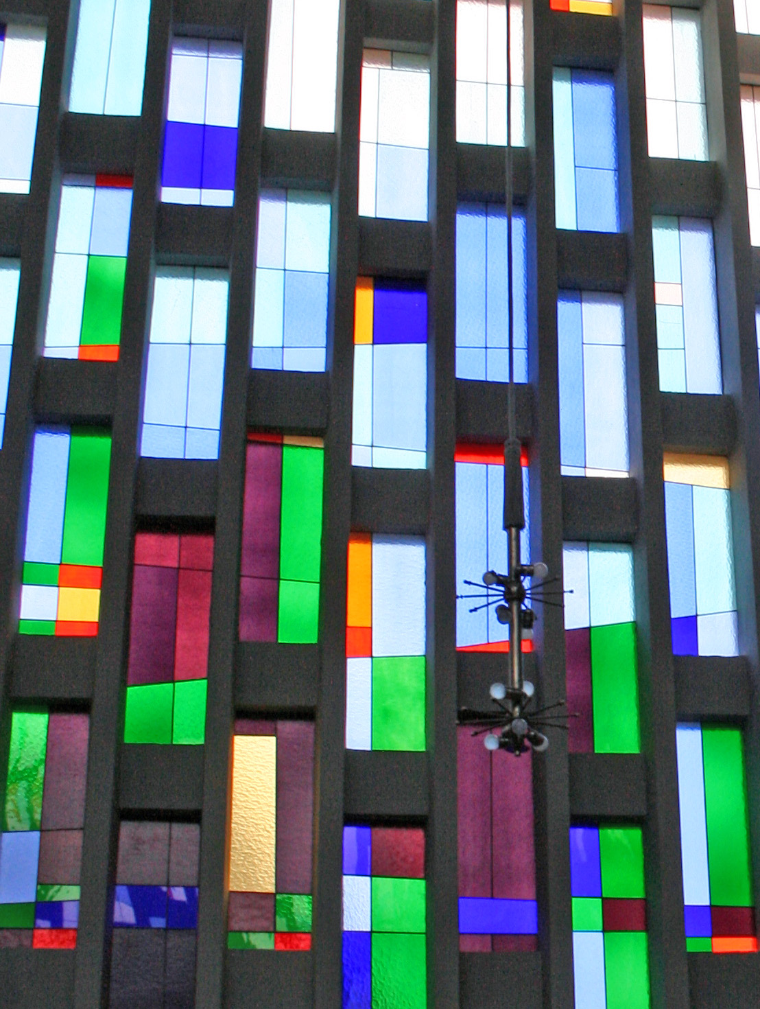 Saint Leonard church in Graz, Austria, Europe